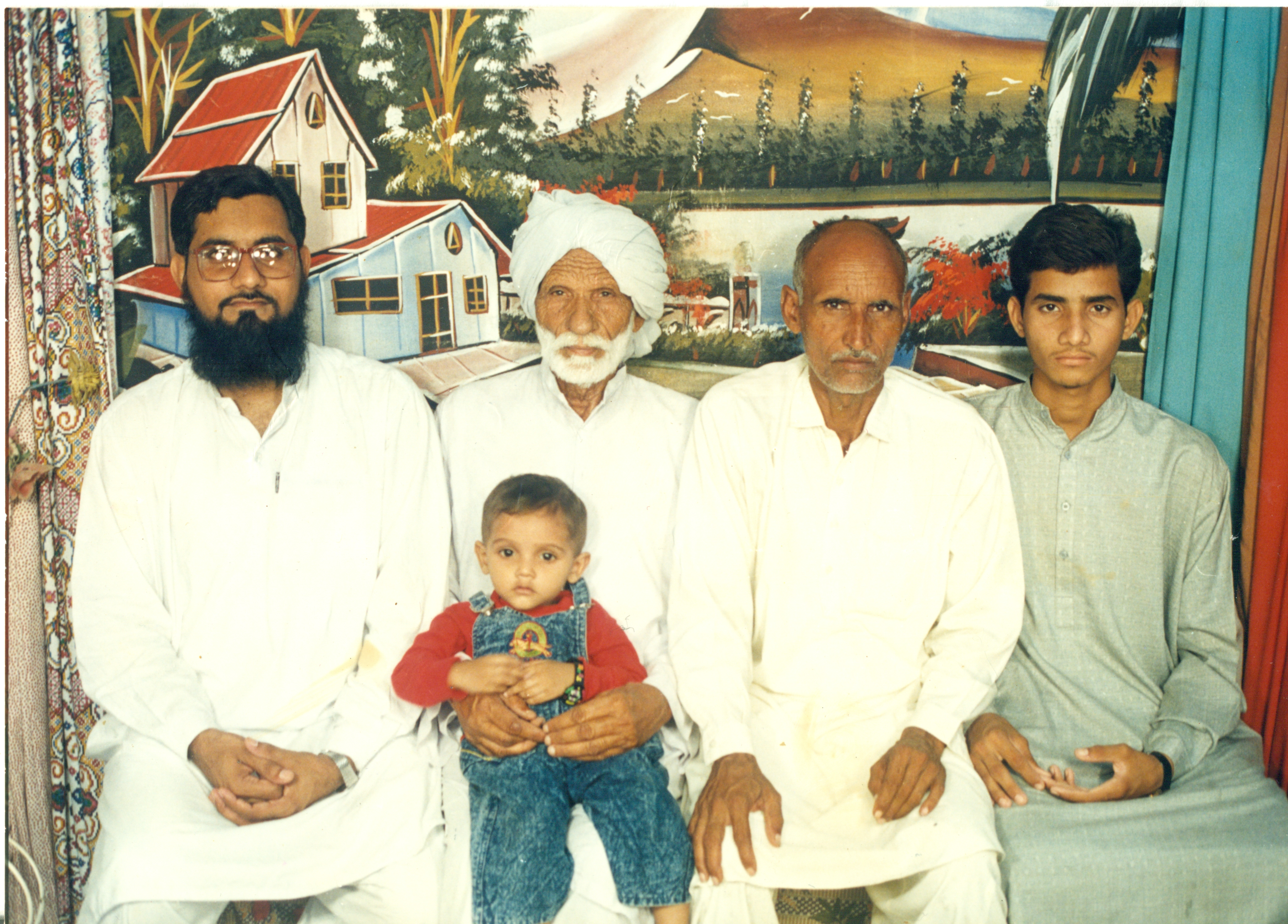 Son, father, grand father, grand grand father